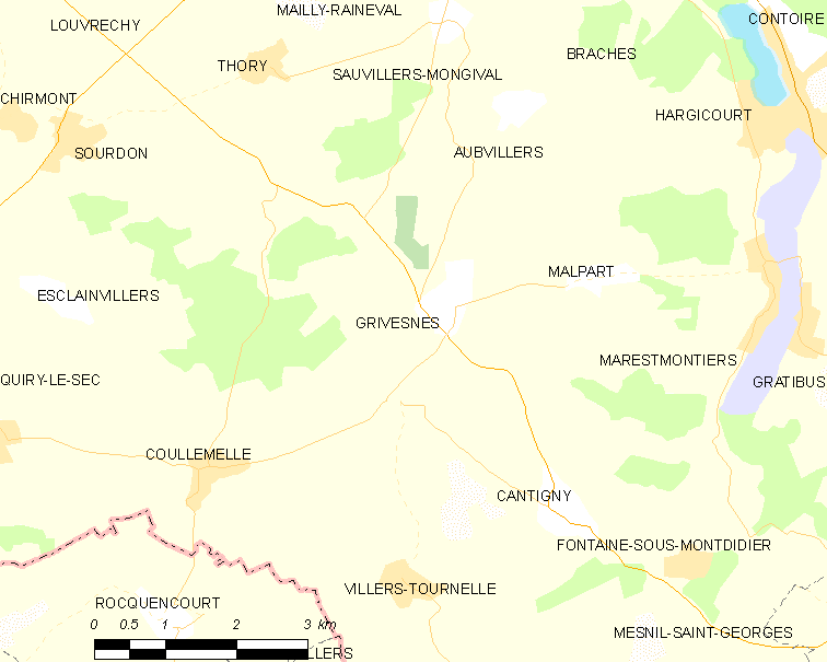 Map of French municipality Grivesnes